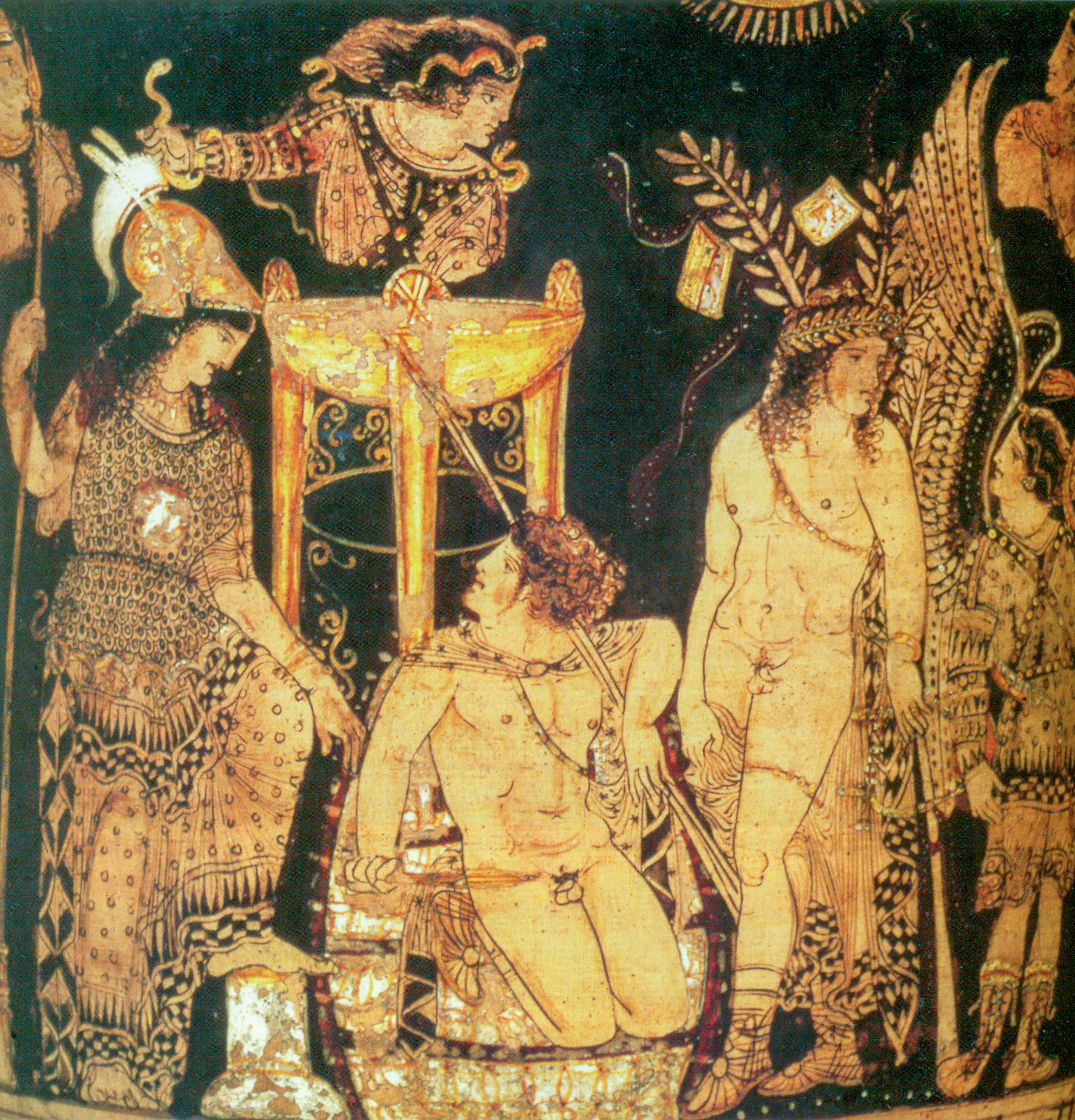 Scene from the Eumenides, part of the Oresteia, by Aeschylus